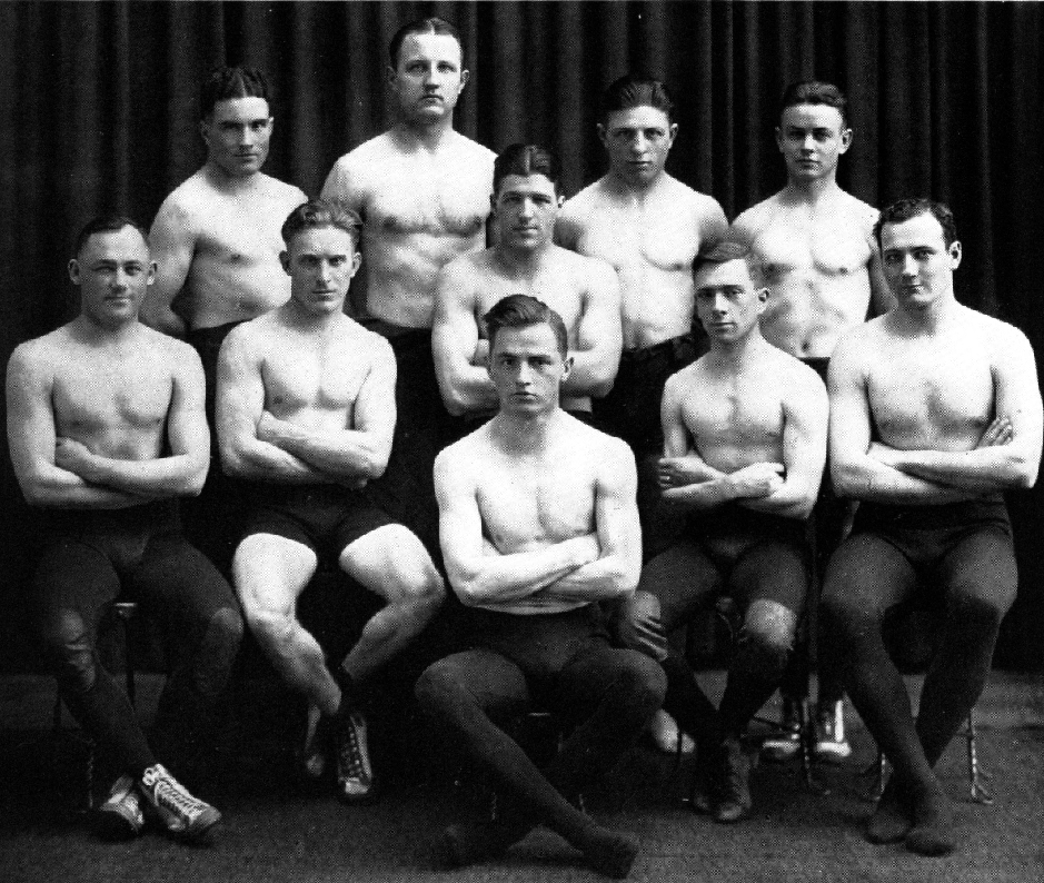 Photograph of 1922 Michigan Wolverines wrestling team Front row: MoffittMiddle row: Campbell, E. W. Gilliard, C. P. Haller (captain), G. L. Defoe, MeekerBack row: E. M. Clifford (mgr.), Czysz, Boschan, Halberg